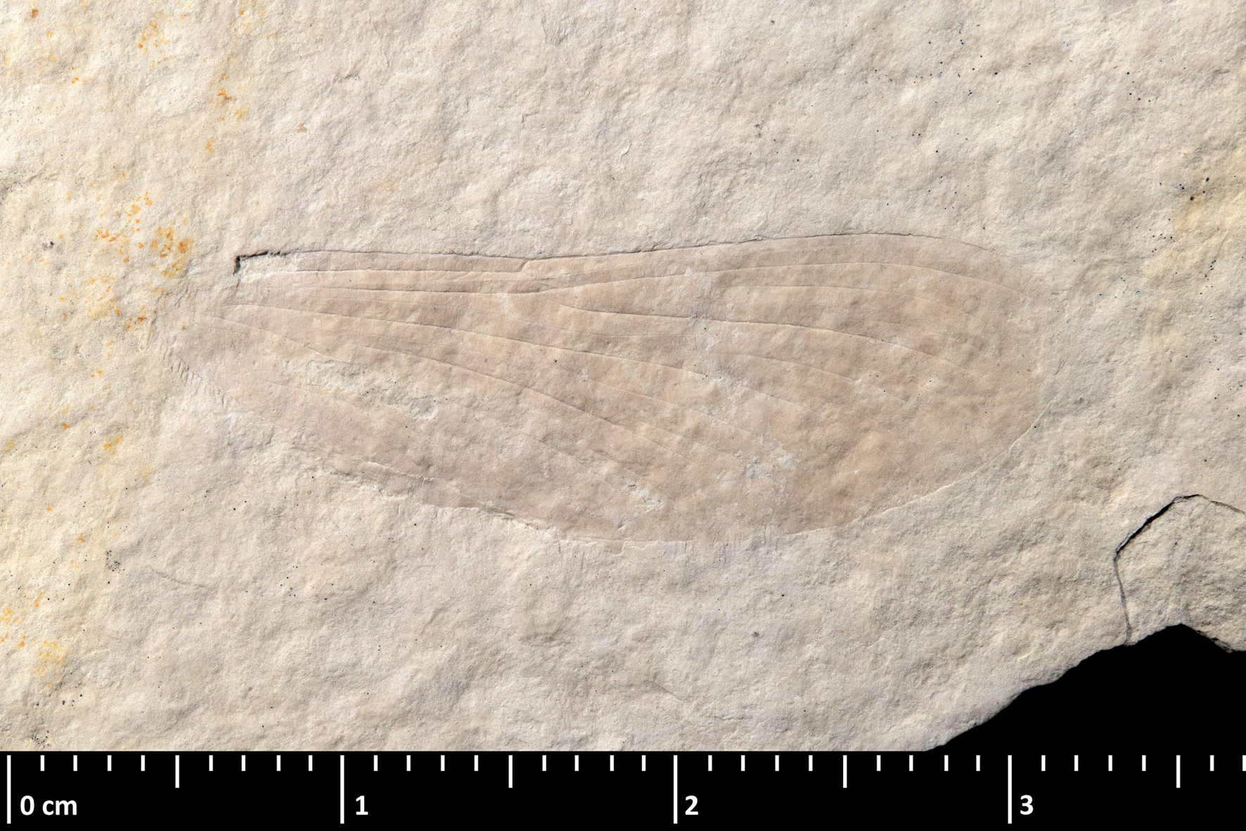 The Sapho legrandi holotype part specimen with direct lighting. Chattien, Oligocene; Les Figons, route d'Eguille, Aix-en-Provence, Bouches-du-Rhône, Provence-Alpes-Côte d'Azur, France Muséum national d'Histoire naturelle specimen MNHN.F.R63847